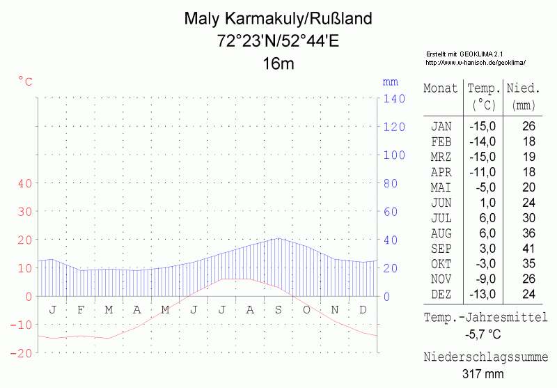 climate chart in the format by Walther and Lieth, metric, °Celsisus and millimeters, made with Geoklima 2.1